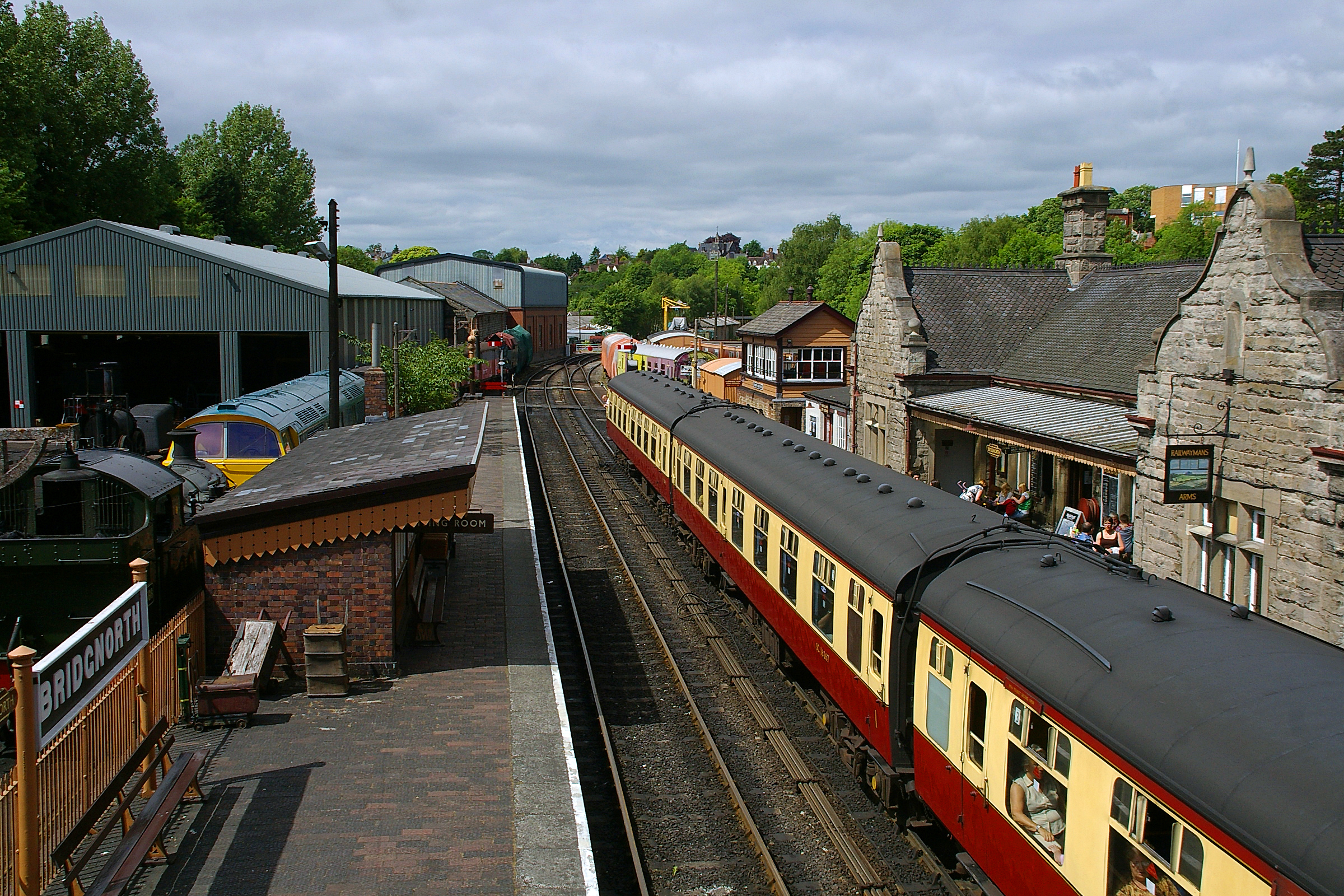 A train sits waiting at Bridgnorth railway station on the Severn Valley Railway.